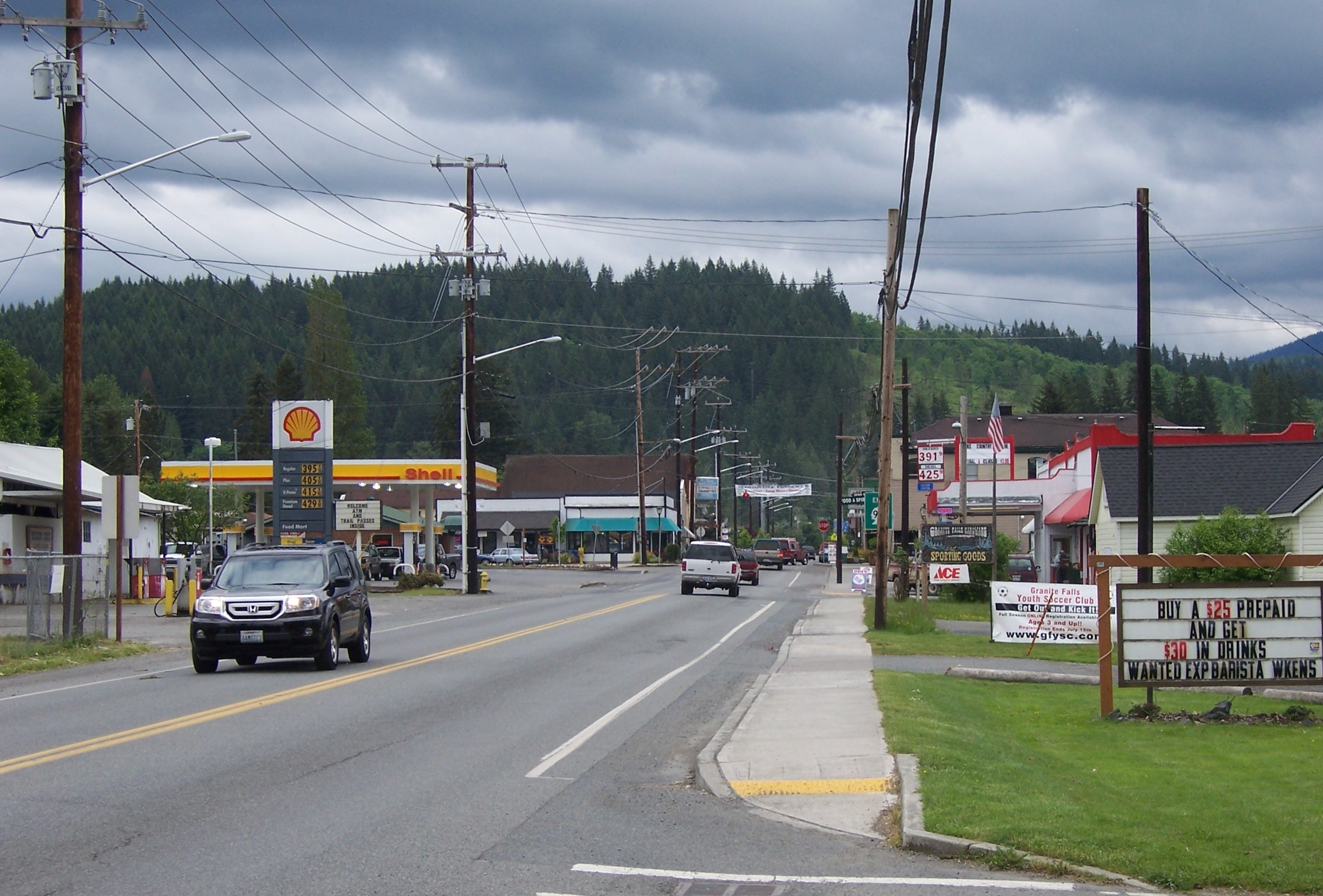 Looking eastward on West Stanley Street (State Route 92) into downtown Granite Falls, Washington.